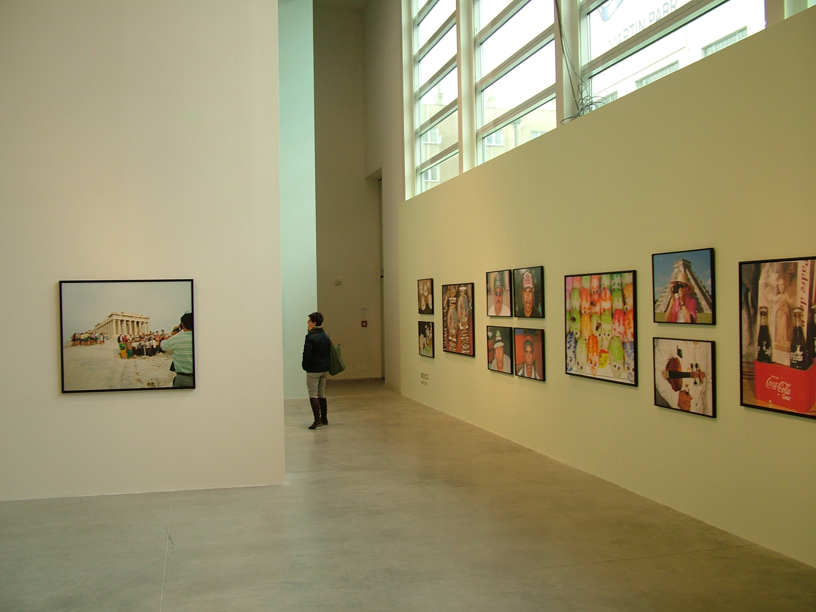 Výstava Martina Parra, Praha, MARTIN PARR: Assorted Cocktail, 10. 2 - 16. 5 2011